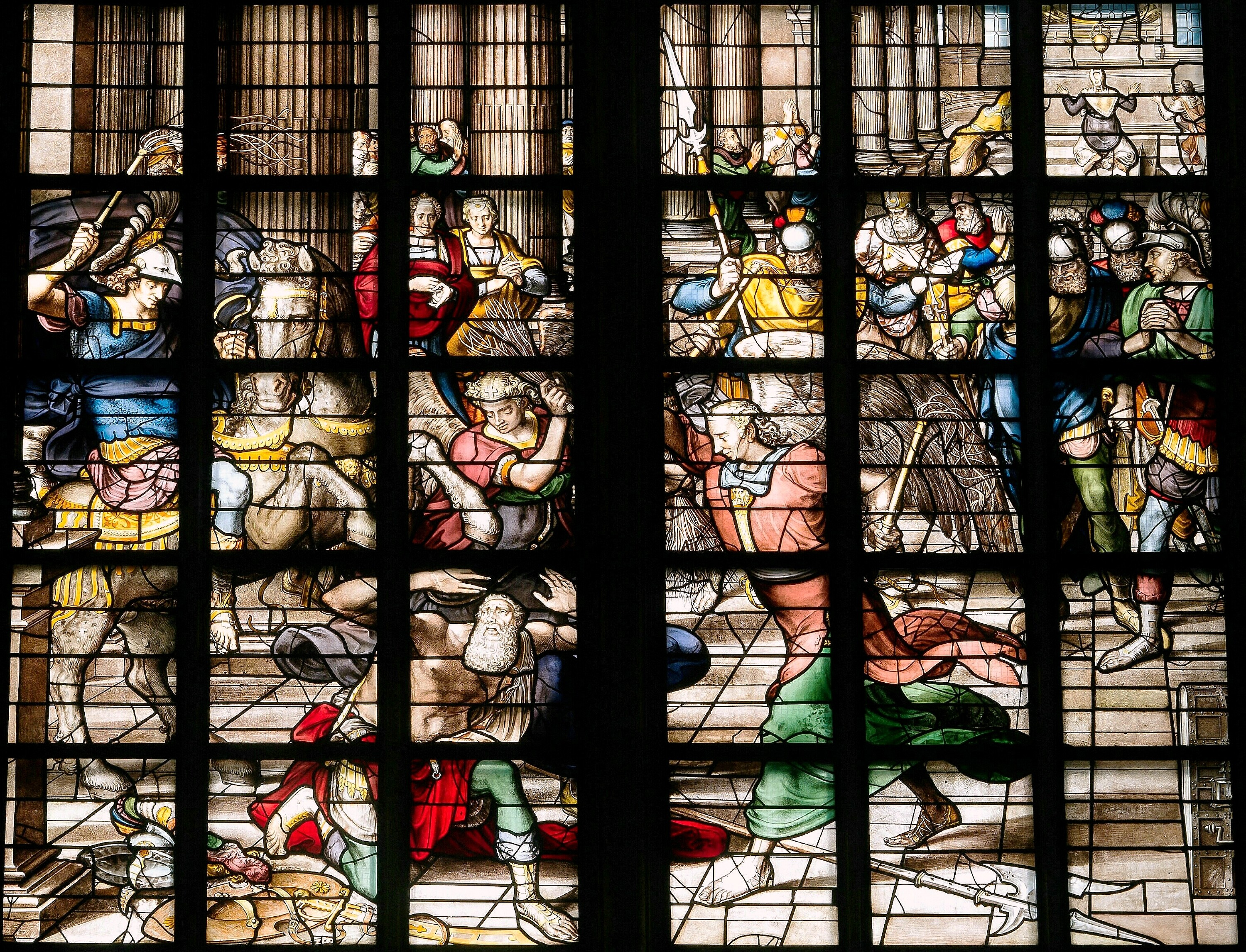 The stained-glass window number 8 in the Sint Janskerk at Gouda/Netherlands: "The expulsion of Heliodoros"